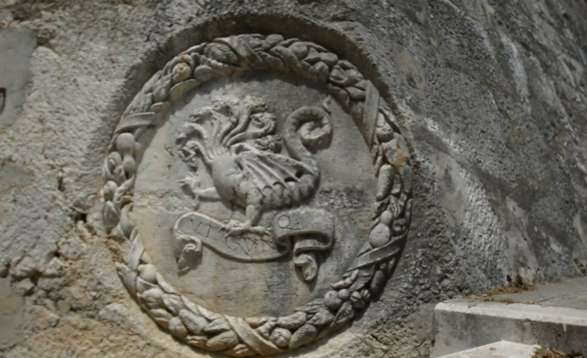 Coat of arms of Venetian condotier and builder Sforza Pallavicino who designed the fort in Zadar, today known as Park of Vladimir Nazor.